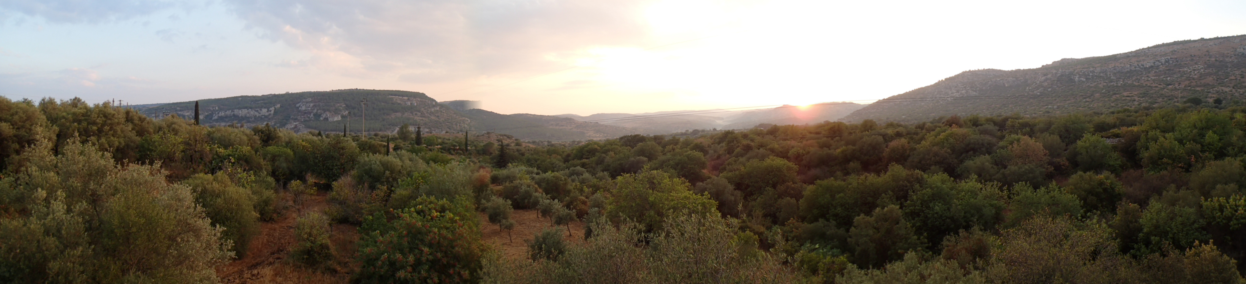 Pantalica: Valley of the Anapo (Province of Syracuse, Sicily)